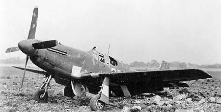 A USAAF North American P-51C, apparently after a nearby explosion.